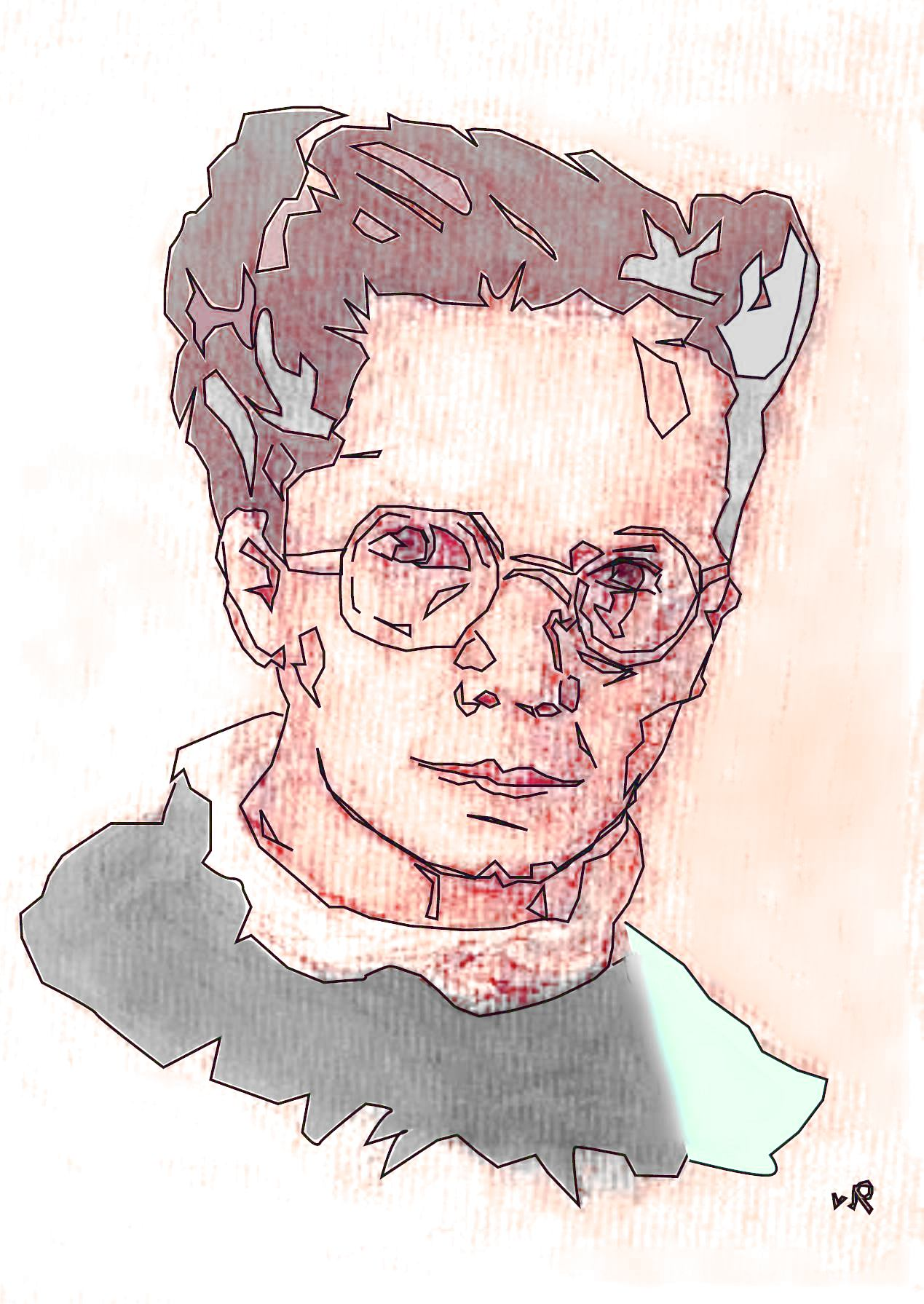 Margarethe von Reinken, created acc to self-portrait watercolour 1920